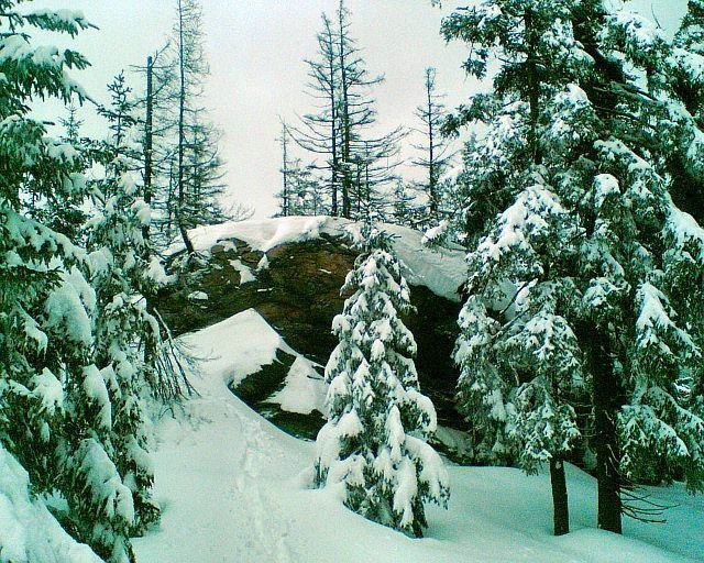 Summit of Struhadlo in the Giant Mountains in the Czech republic.